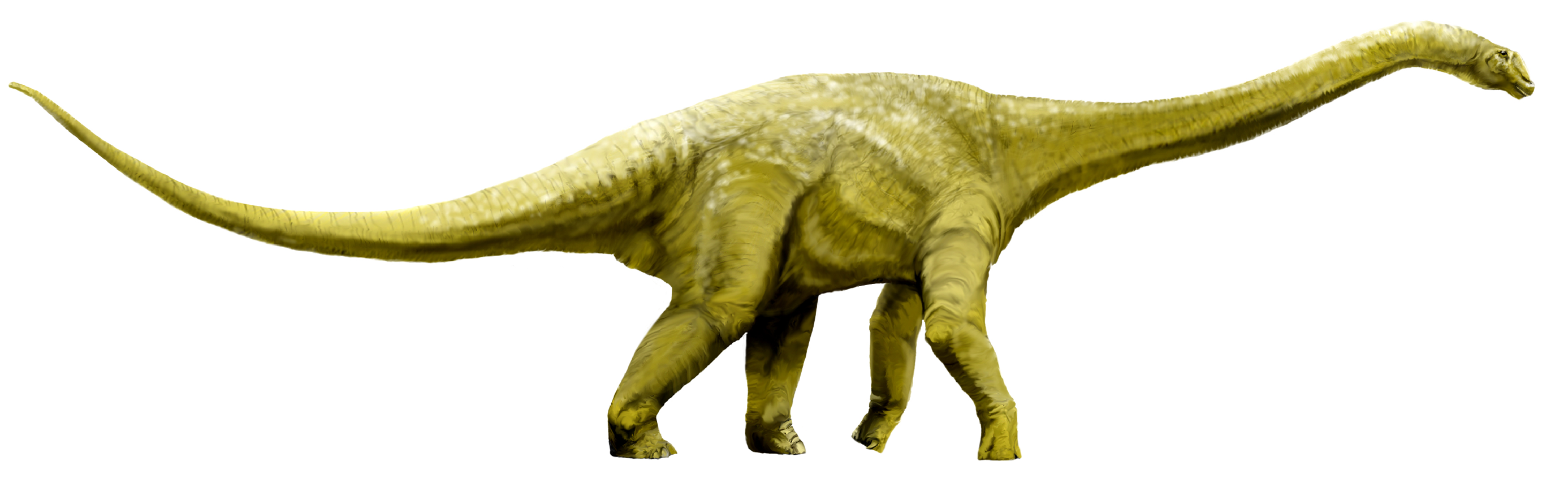 Artistic representations of Wintonotitan